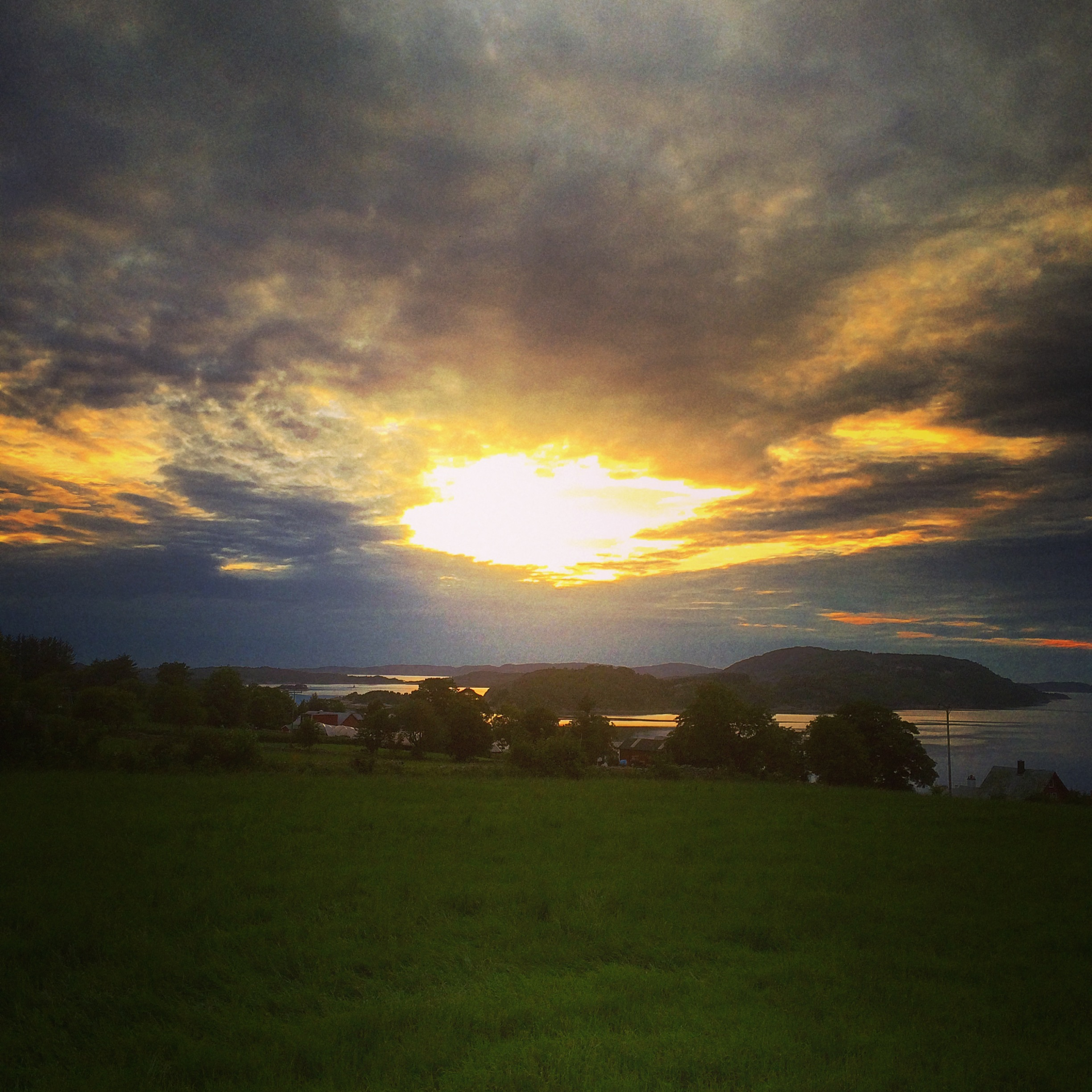 Sunset in Fitjar, Hordaland, Norway